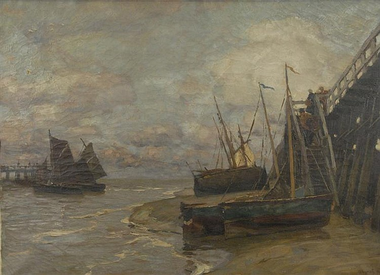 Fishing Port (Newport)